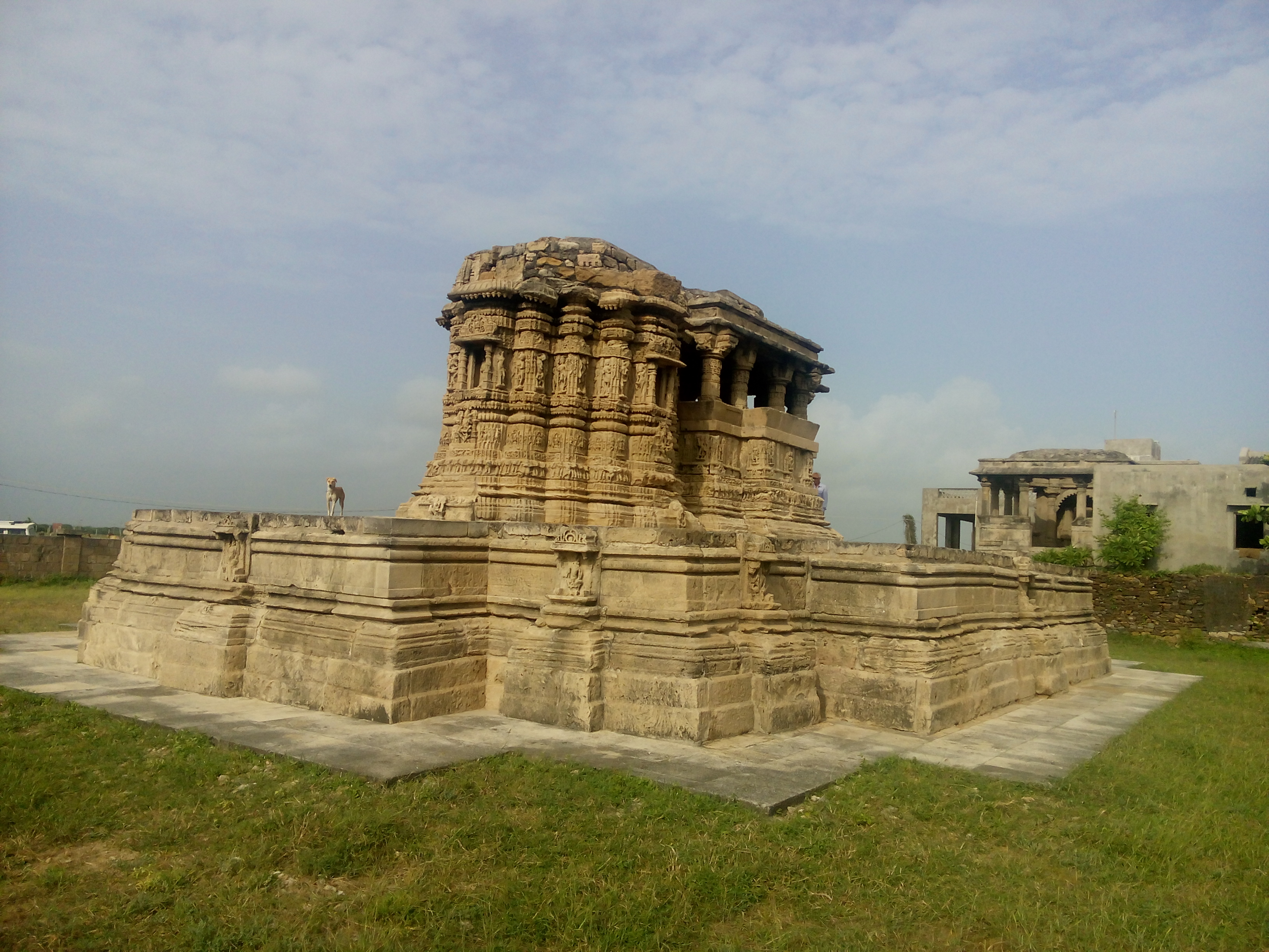 Temple of Rama Laxman, View from West side, View towards Sea side. On left side can see ruins and of other temple structure overlaped by other modern structure.